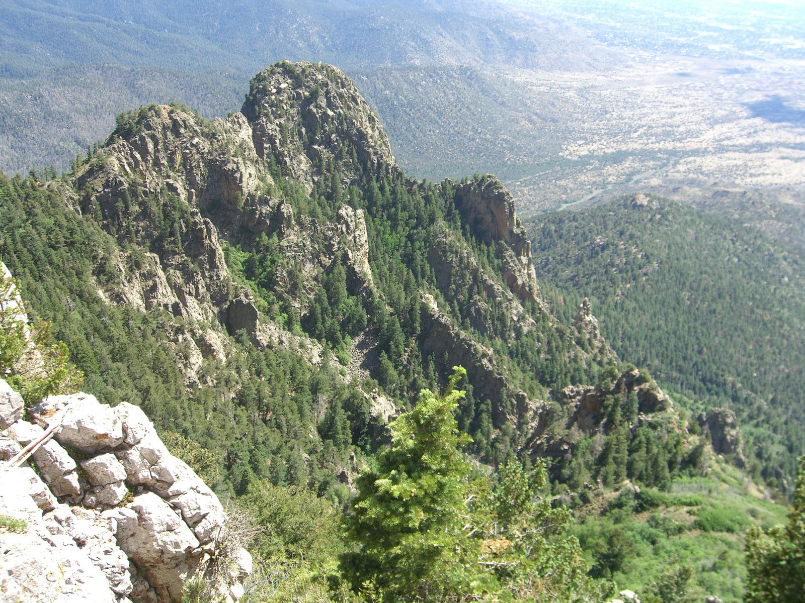 View from Sandia Peak, in the Sandia Mountains, facing southwest.